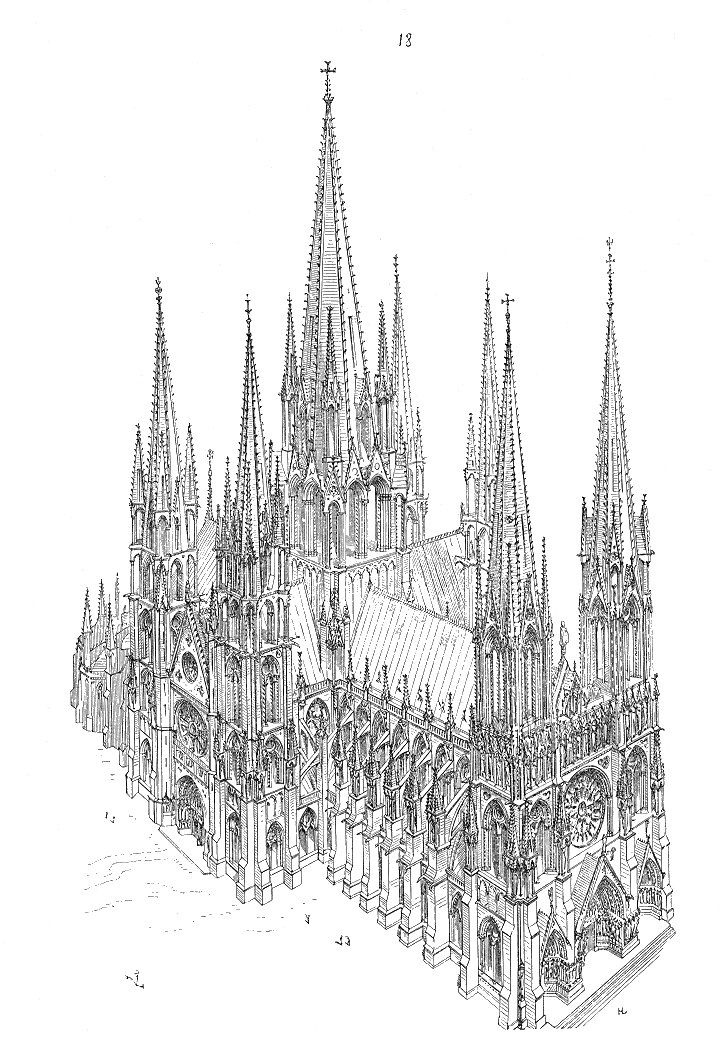 Gothic Cathedral, by Eugene Emmanuel Viollet-le-Duc. In order to give an idea of what a cathedral of the 13th century must have been like, complete, achieved as conceived, we give here (18) a cavalier perspective of an edifice of that time, executed after the type adopted at Reims.